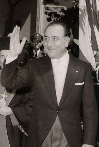 Easter 1961, saluting back Lebanese citizens